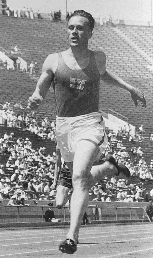 Akilles Jarvinen of Finland in action during a running discipline in the Decathlon event at the 1932 Olympic Games in Los Angeles, USA. Jarvinen won the silver medal.